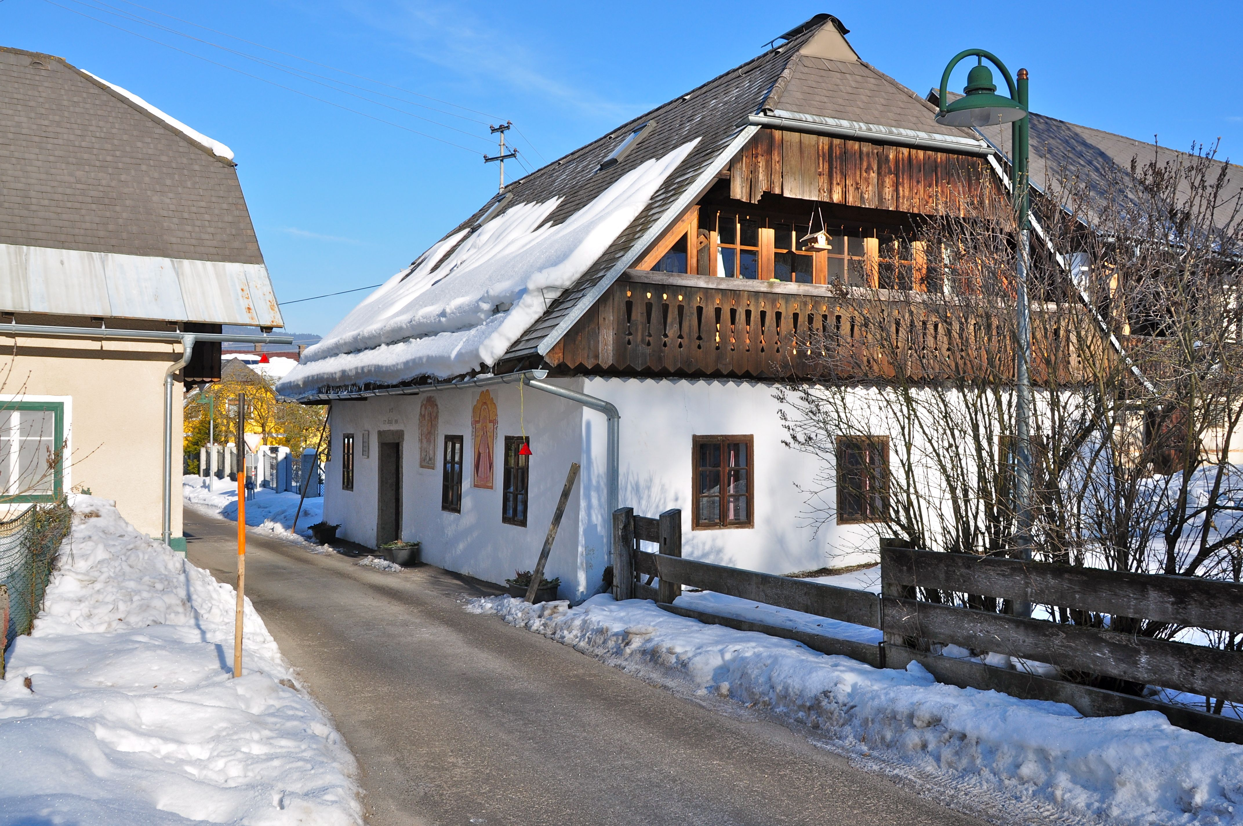 Birthplace of Andrej Einspieler in Suetschach #23, municipality Feistritz im Rosental, district Klagenfurt Land, Carinthia, Austria